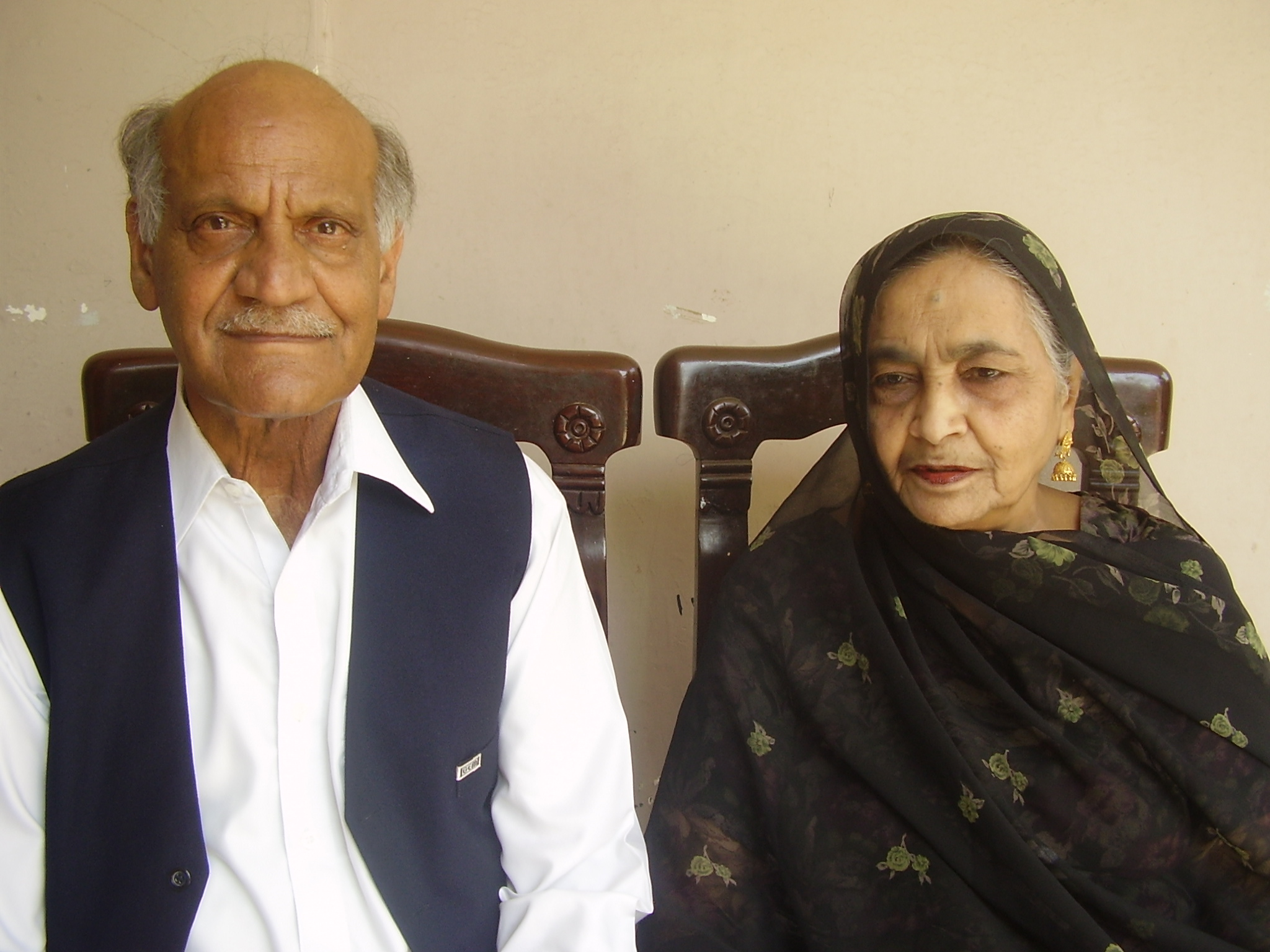 Portrait of Anwar Masood and his wife Sadiqa Anwar